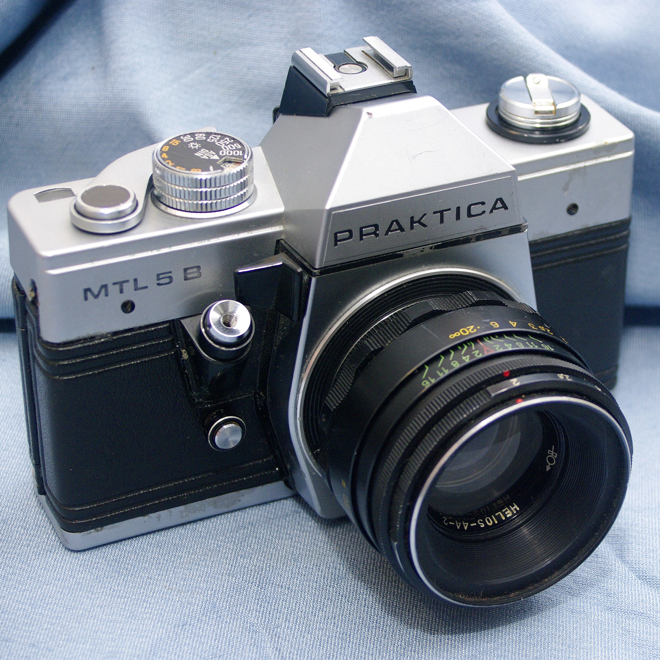 My Praktica MTL5B with a Helios-44-2 lense mounted. This camera has been modified mechanically and cosmetically to my personal taste - visible alterations are: the original lense is a Pentacon 1.8/50, and the shutter speed selector, film advance, and film rewind are black on all other fourth-generation L-series Prakticas.